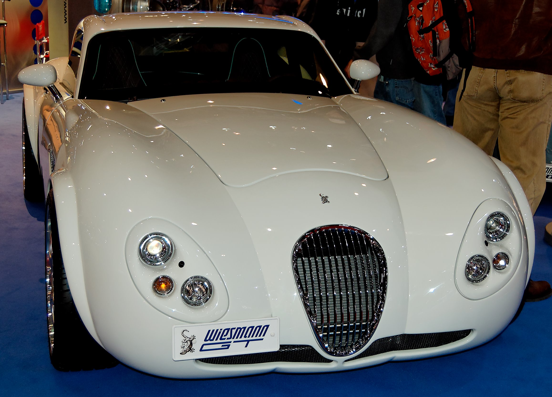 Wiesmann GT at the 2006 Salon International de l'Auto